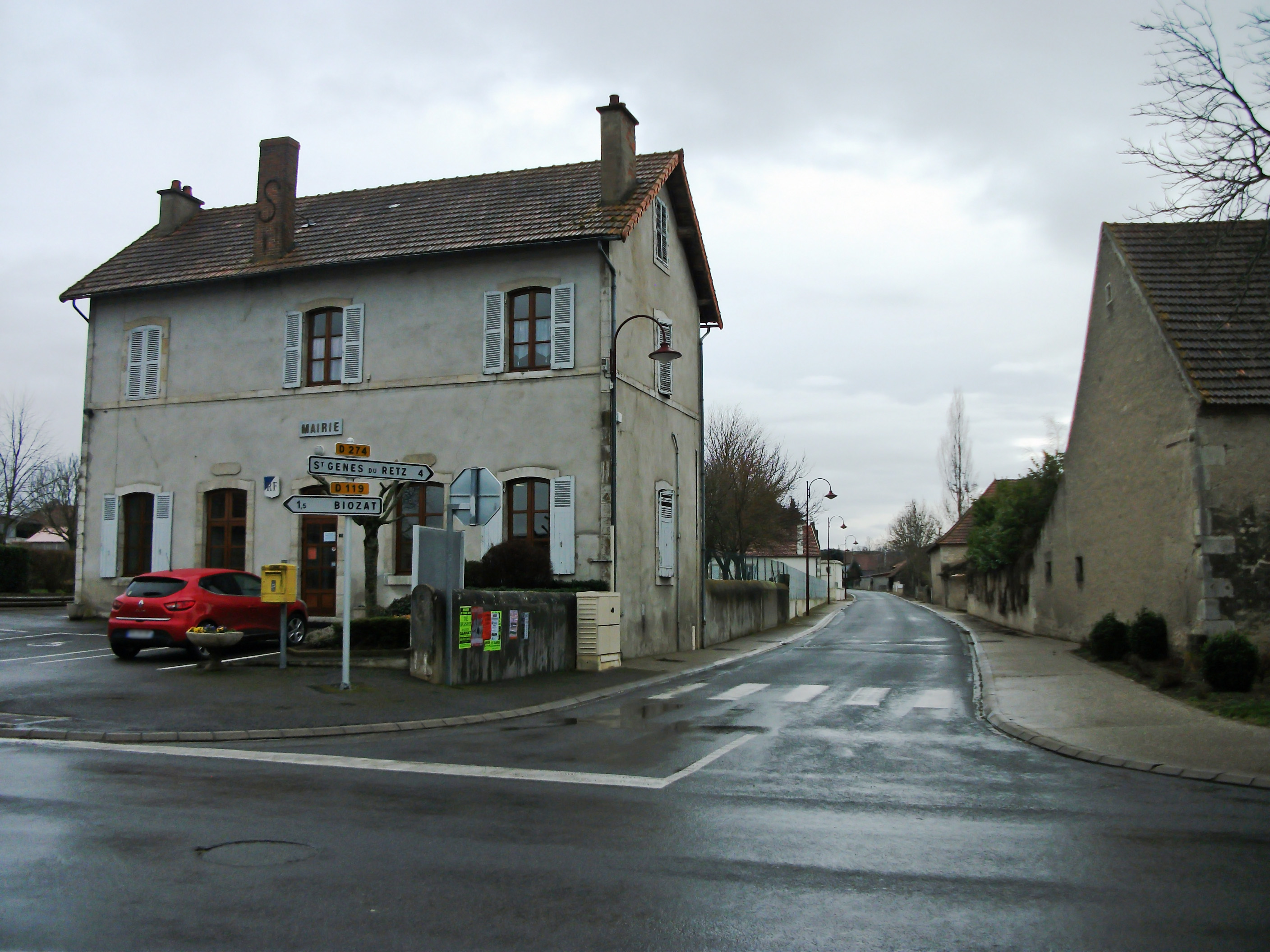 Town hall and departmental road 274 towards Saint-Genès-du-Retz (Puy-de-Dôme) in Charmes (Allier) [10084]